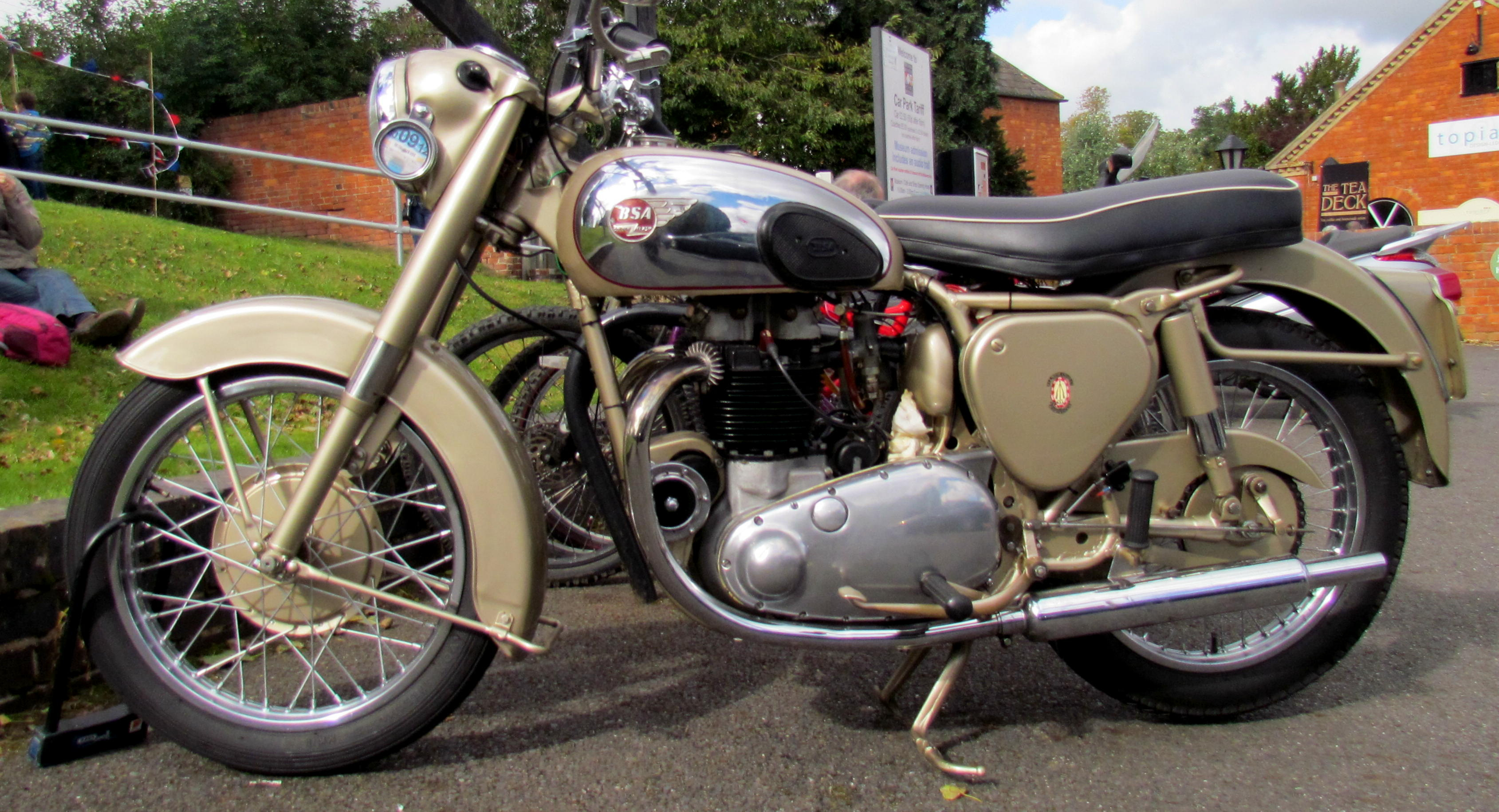 BSA A10 Golden Flash at the Village at War Weekend 2012, Stoke Bruerne, Northamptonshire